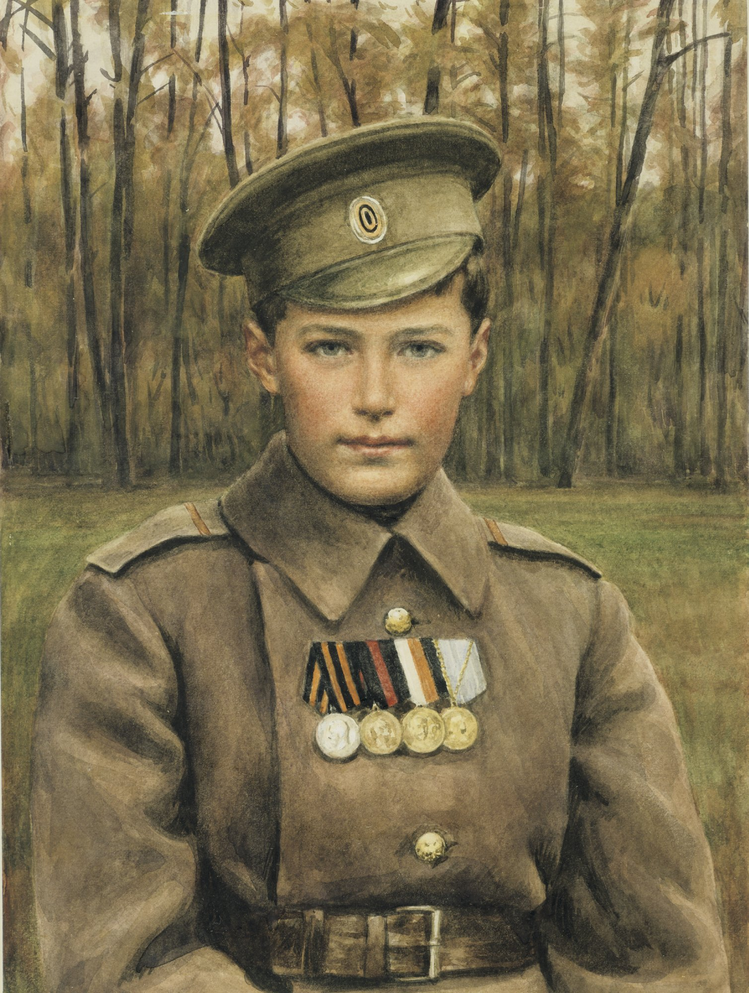 Portrait of last Tsarevich dressed in the soldier's coat, cap and shoulder-boards of a corporal. On his chests are four medals (from left to right): medal of St. George 4th class worn on St. George ribbon; medal commemorating the Centenary of the Patriotic War of 1812 (inaugurated 26 August 1912) worn on St. Vladimir ribbon; medal commemorating the Tercentenary of the Reign of the House of Romanov (inaugurated 12 March 1913) worn on Romanov ribbon; medal commemorating the Bicentenary of the battle of Gangut (inaugurated 12 June 1914) worn on St. Andrew ribbon, the addition of the chain indicates that it was given to the naval officers. Portrait is half length and the Tsarevich stands against a background of trees.